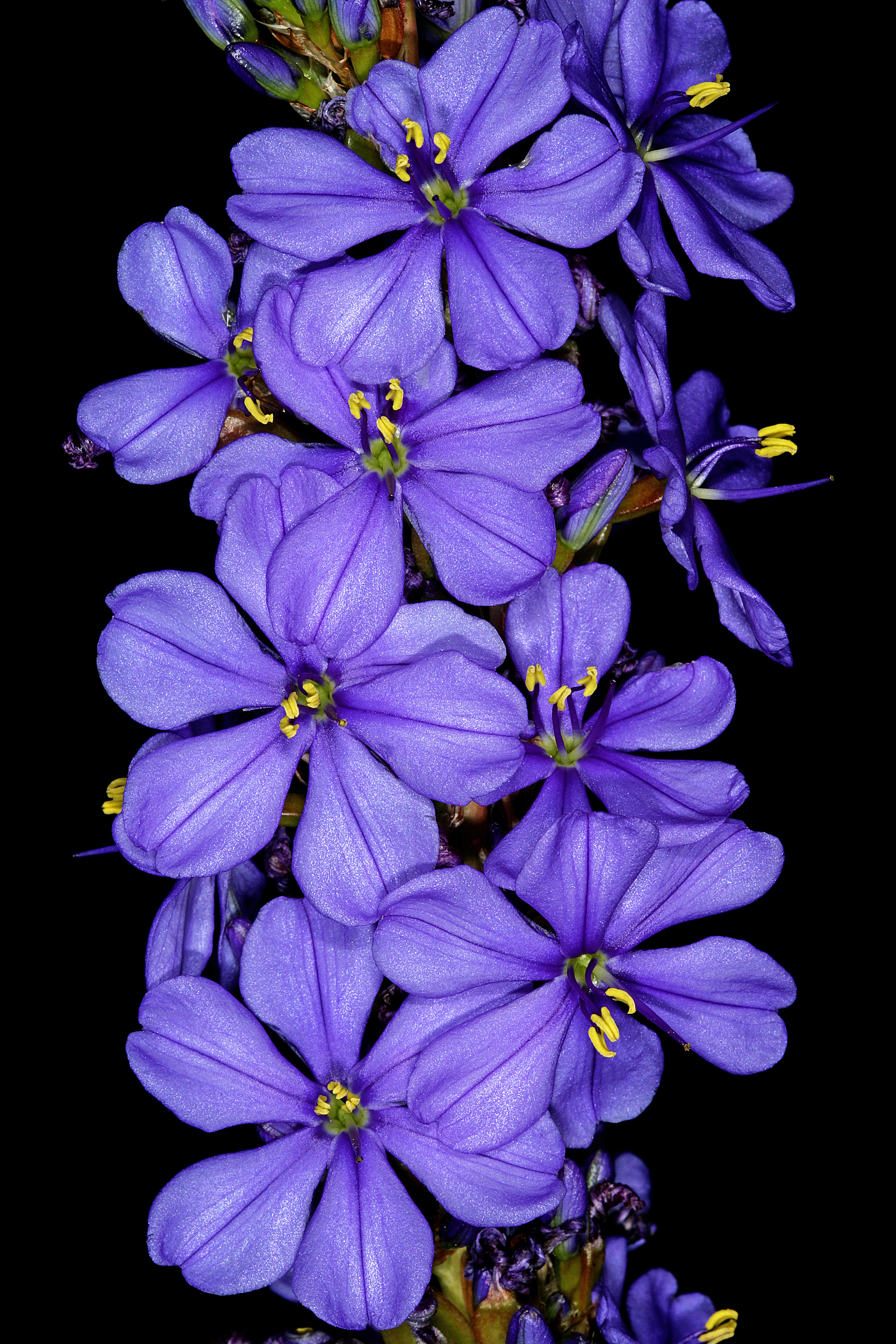 Aristea capitata, part of inflorescence; Kirstenbosch National Botanical Garden, Cape Town, Western Cape, South Africa